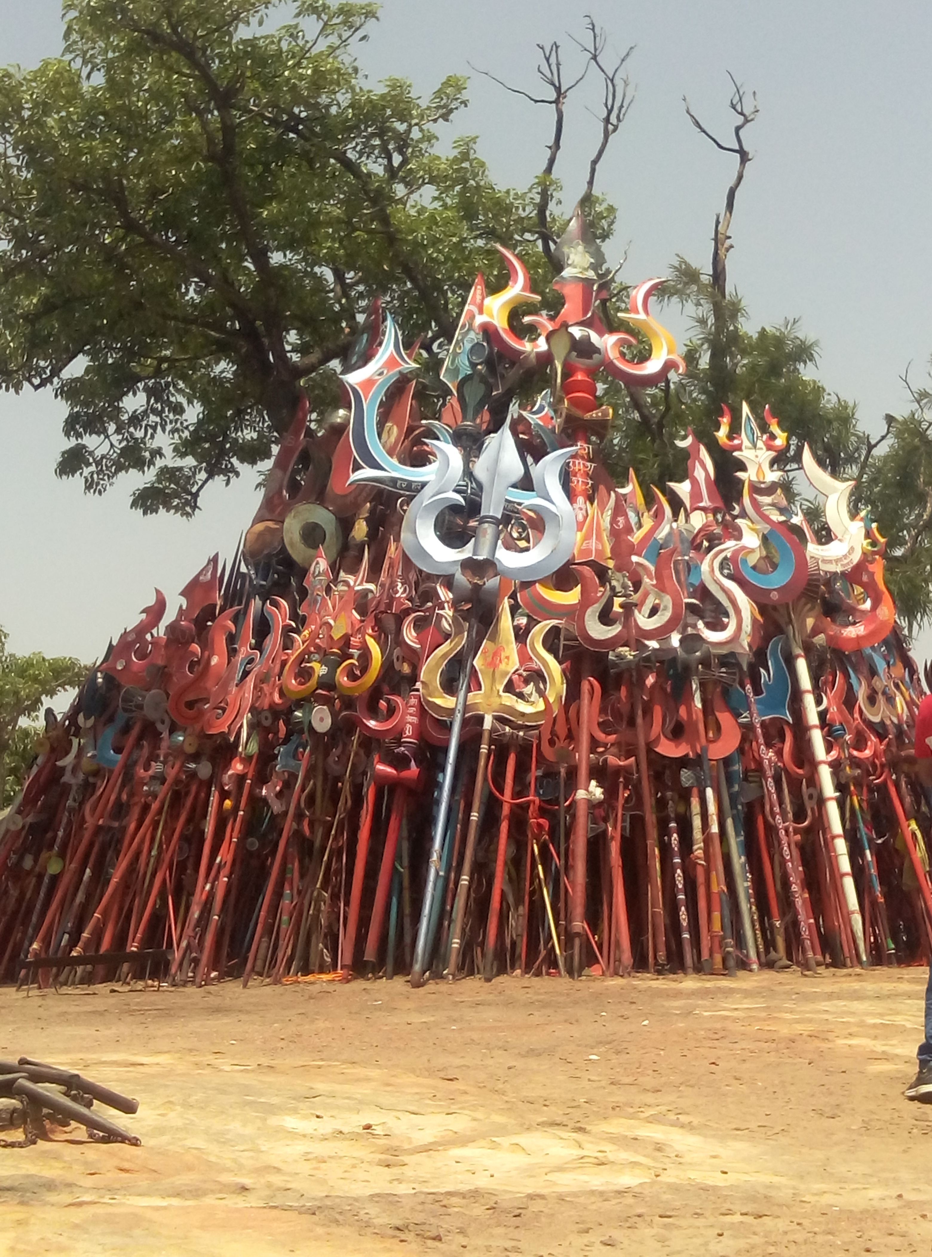 This picture is from Chauragarh temple in Pachmari(M.P).The picture have Trishula which people devote to god Shiva when their wishes are complete.